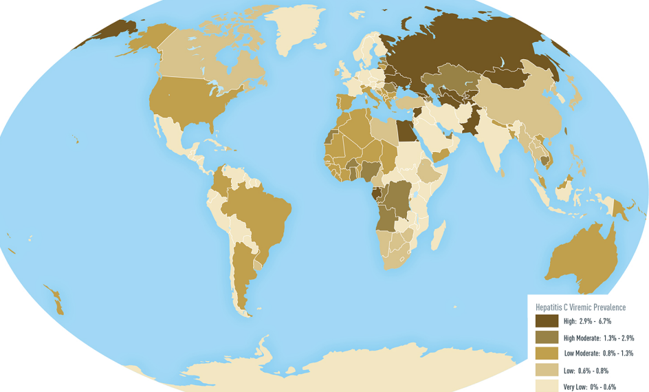 Hepatitis C prevalence 2015